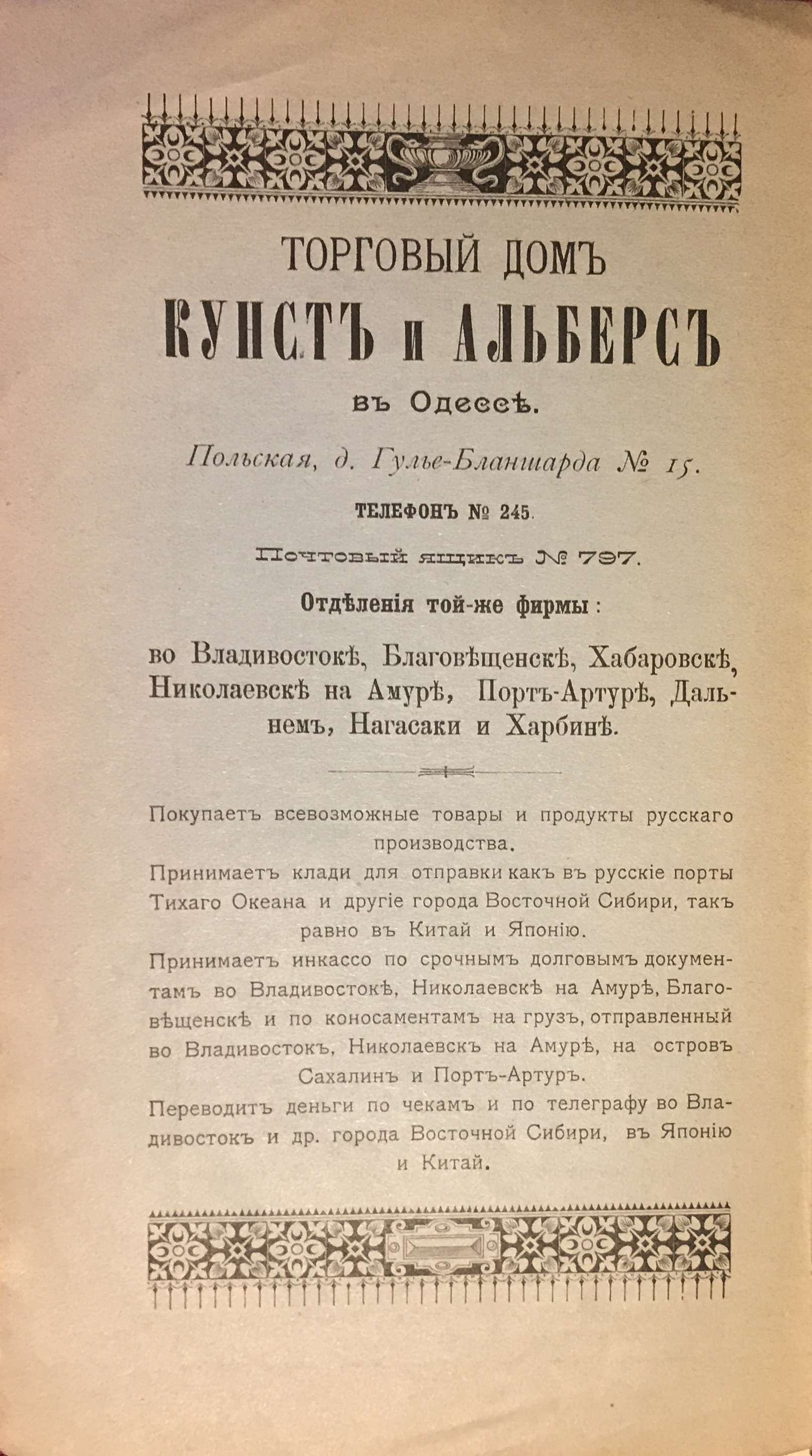 Advertizement of Kunst & Albers (Trade company) in the travel guide of the Russian Steam Navigation and Trading Company, 1902